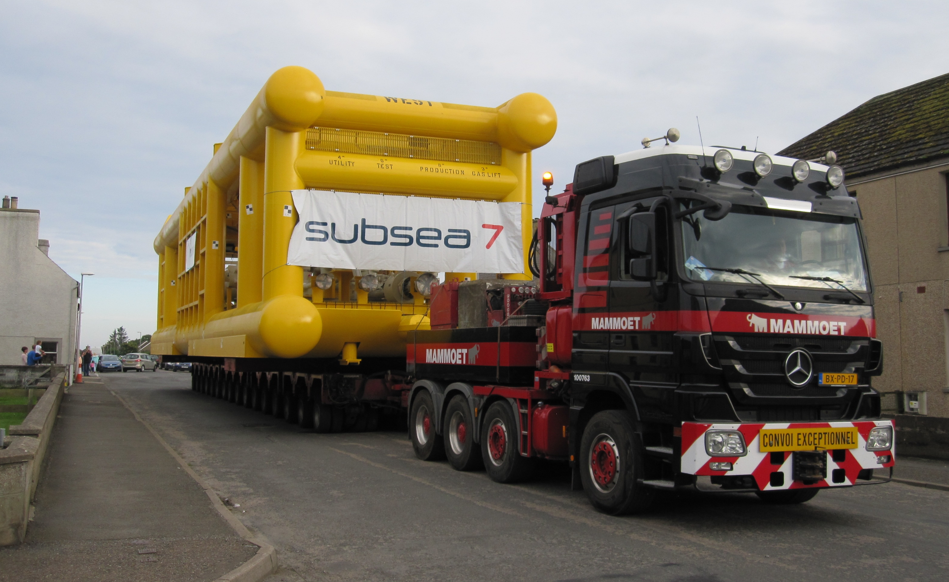 In Henrietta Street